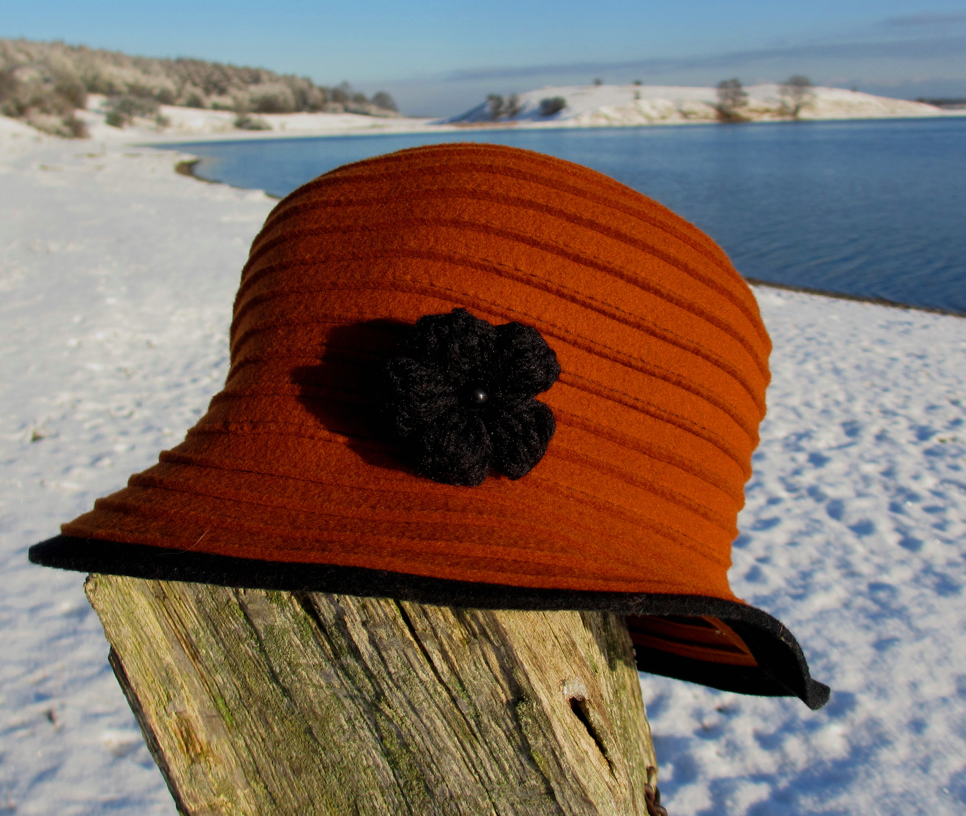 Lady's winter hat by Mayser 2012